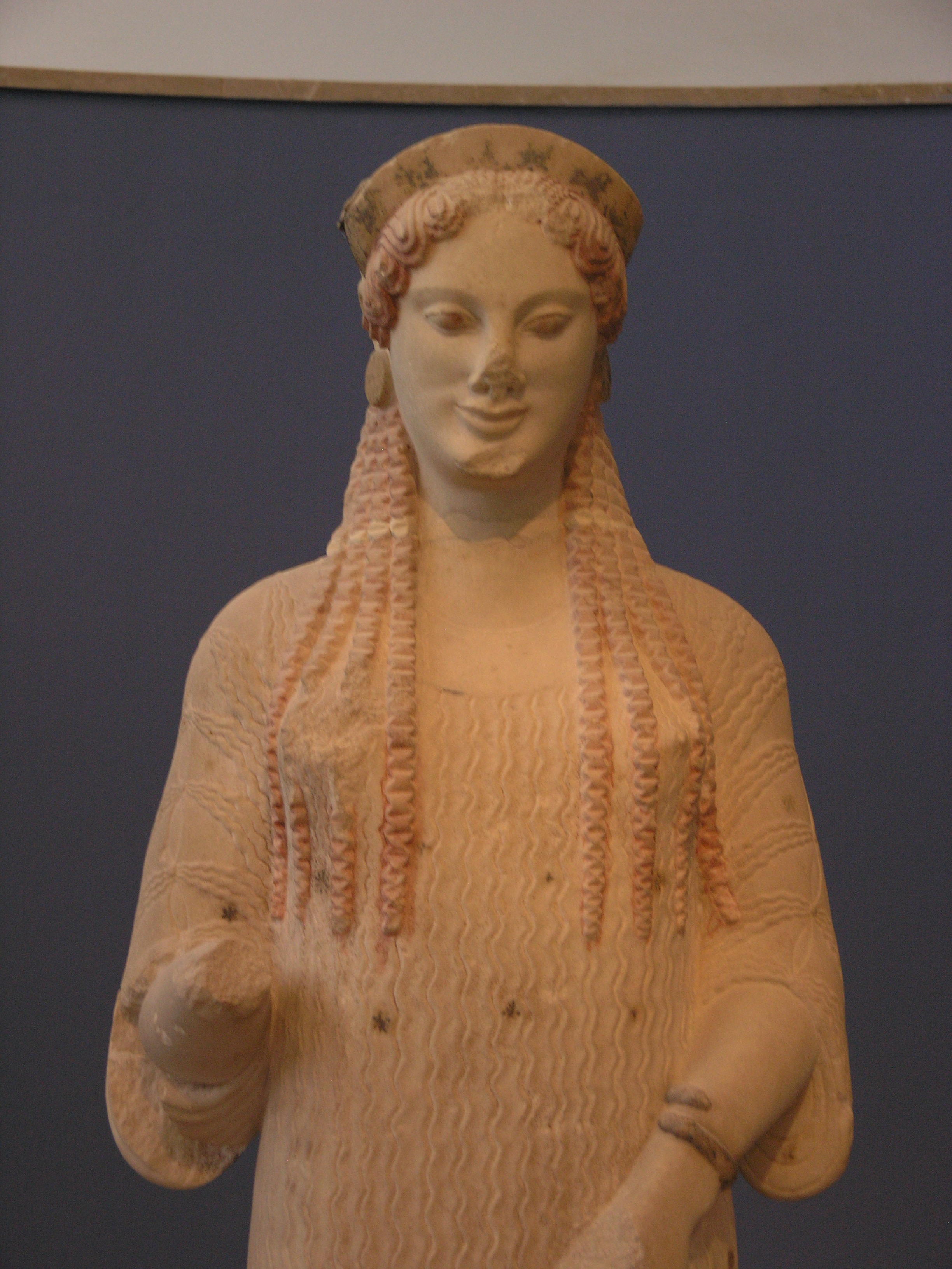 Kore, ca. 520-510 BC